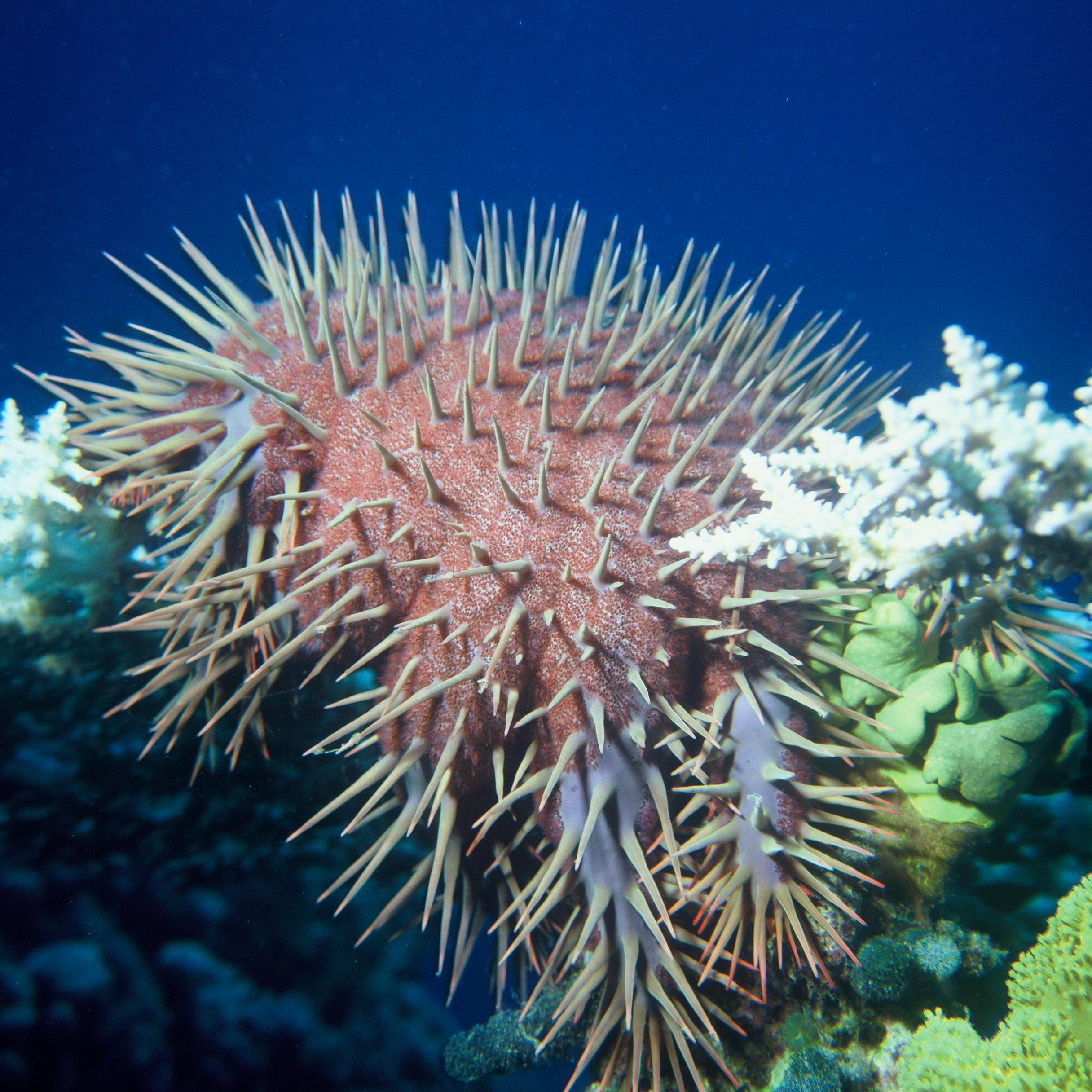 Description Doorenkroon (Acanthaster planci) Date1986SourceRode ZeeAuthorAlbert KokPermission (Reusing this file) Public domain Doorenkroon (Acanthaster planci)